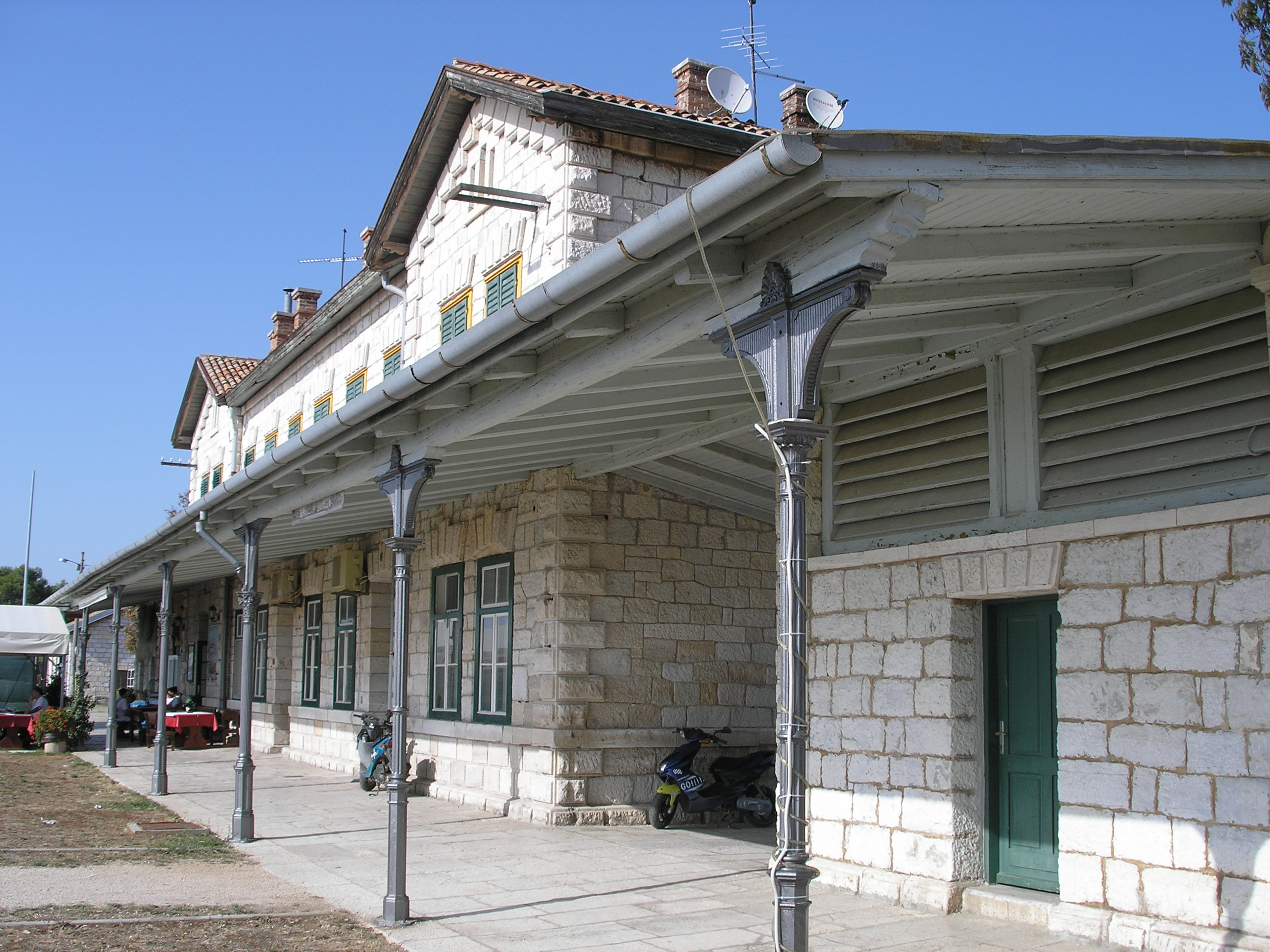 Former railway station in Rovinj, Croatia